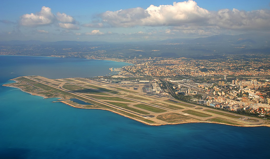 An aerial view of Nice Airport, seen looking westwards